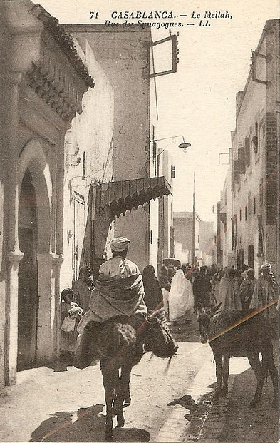 Mellah of Casablanca